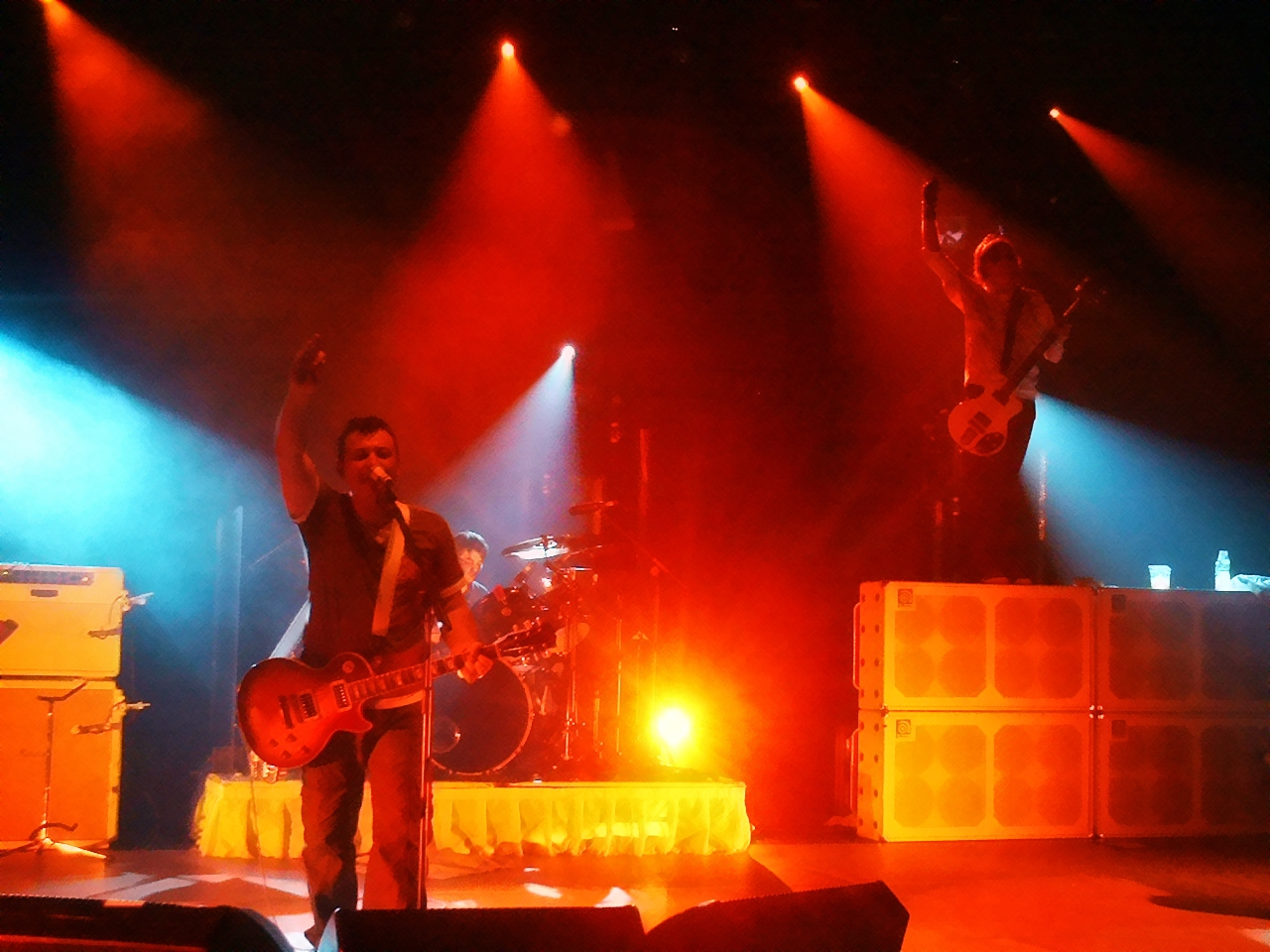 Manic Street Preachers live in London